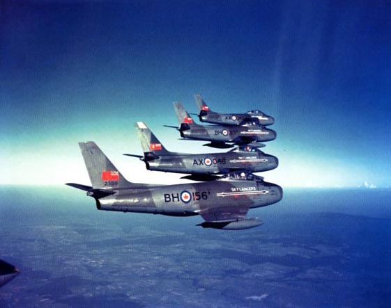 Royal Canadian Air Force Sky Lancers aerobatic team, 1955. CF Photo, PC 1083